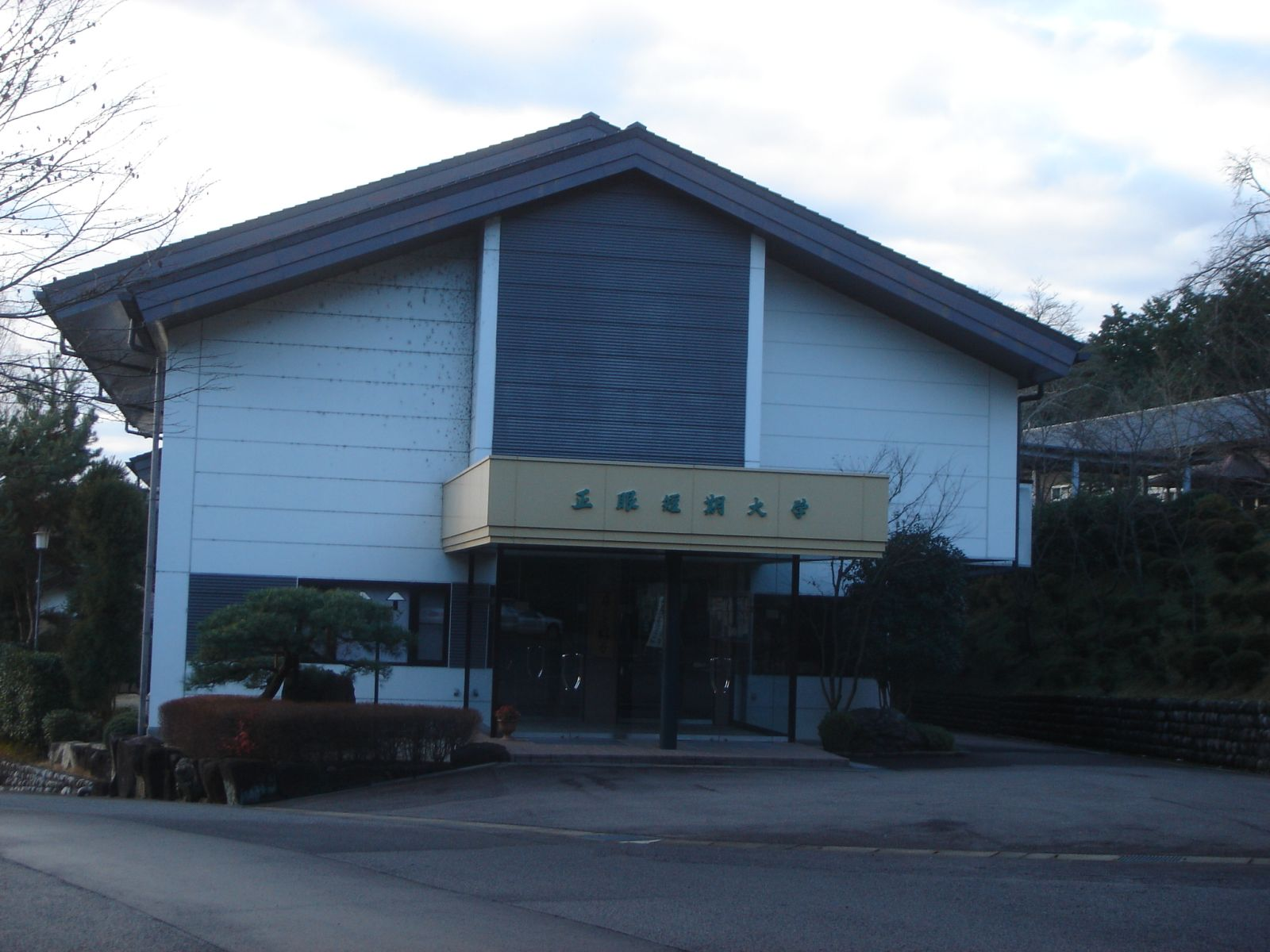 Shogen_Junior_College(正眼短期大学、本部棟),Minokamo,Gifu,Japan(岐阜県美濃加茂市)で撮影。